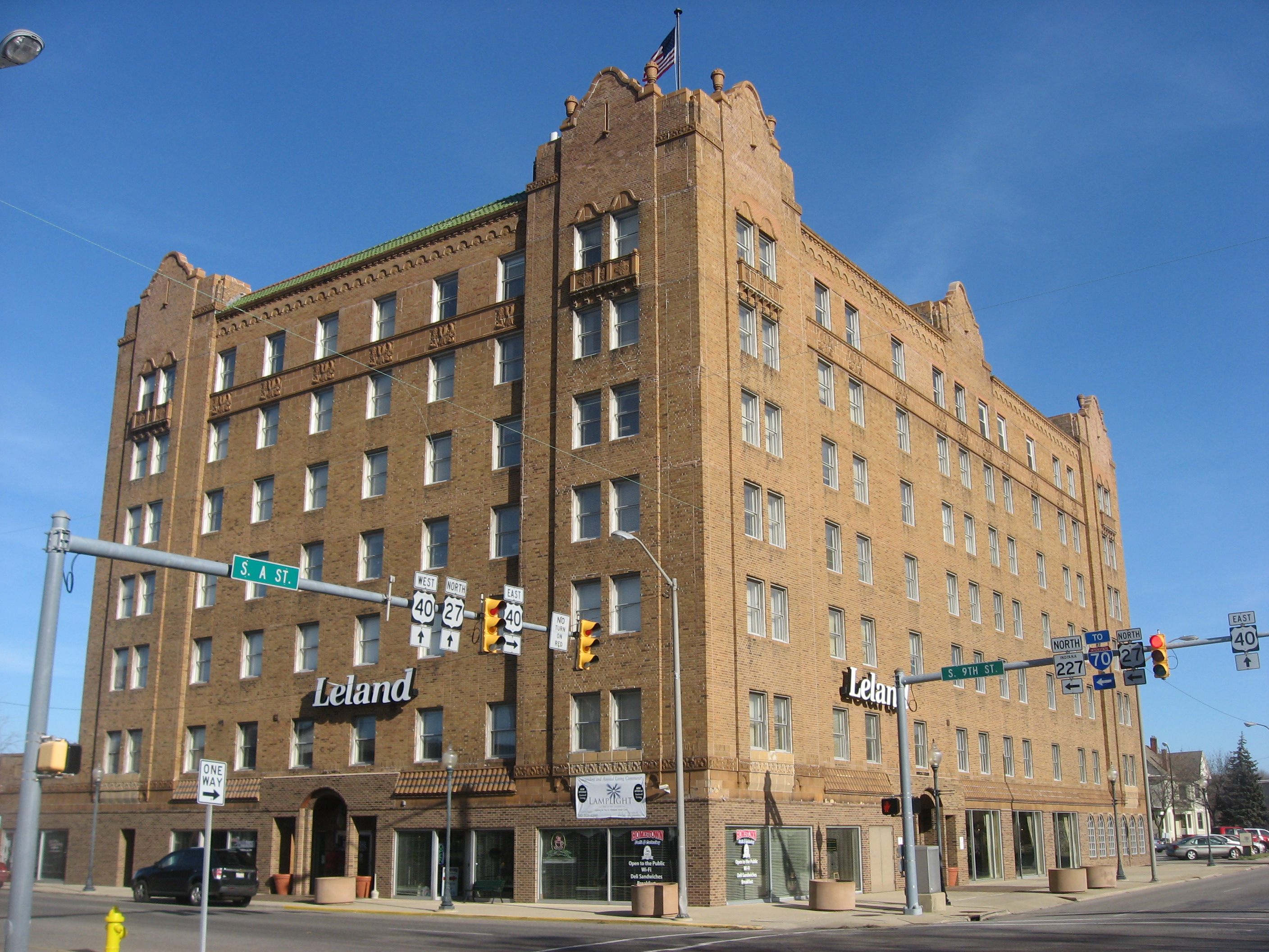 Western and southern sides of the Leland Hotel, located at 900 S. A Street (U.S. Route 40) in Richmond, Indiana, United States. Built in 1928, it is listed on the National Register of Historic Places.